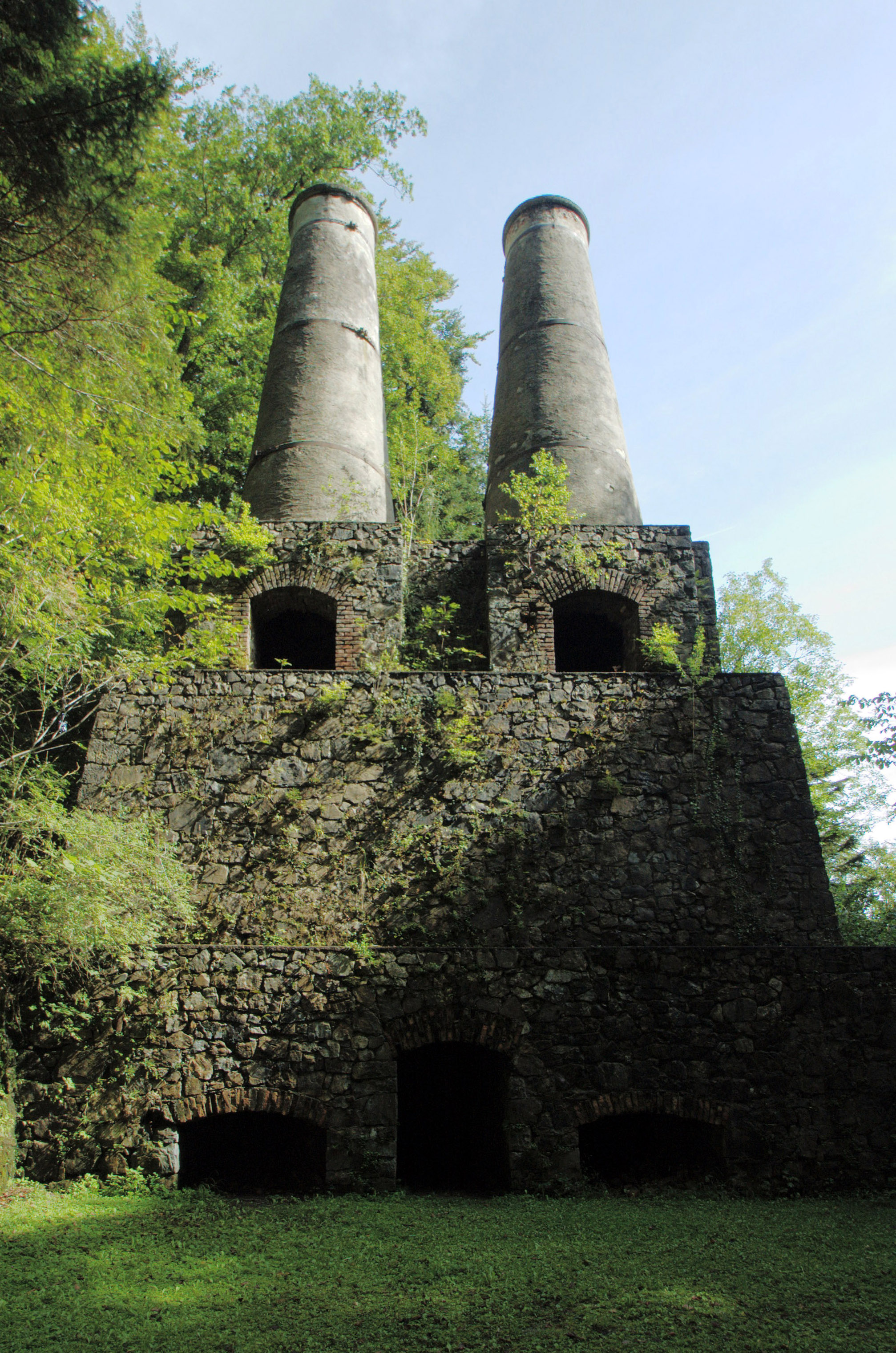 Historic concrete plant in Litzldorf (Bad Feilnbach)/Germany. Built in 1894, burned down in 1898, partly restored in 1992/93